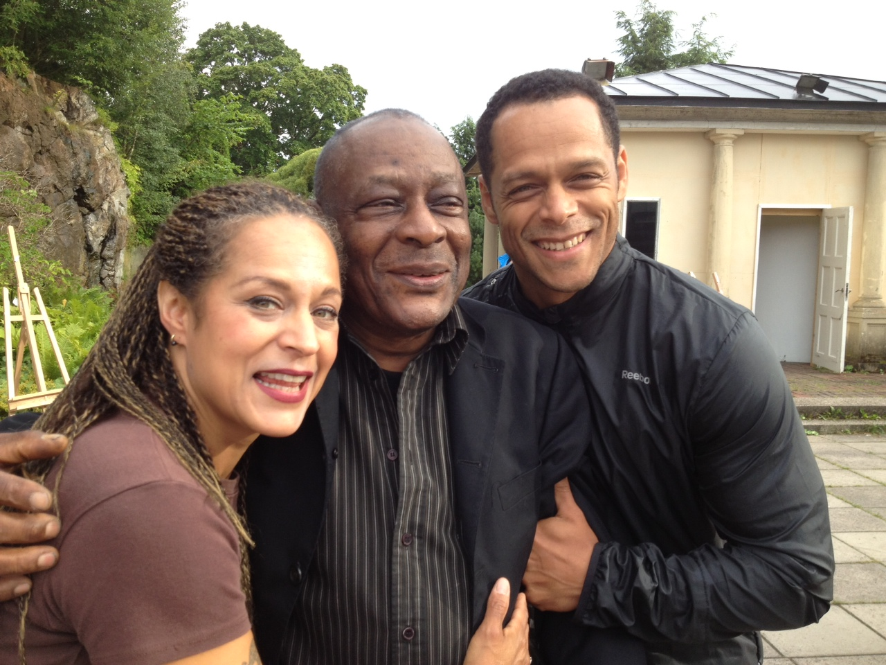 Sharon, Colin and Karl Dyall at Hågelby outdoor theatre in 2013